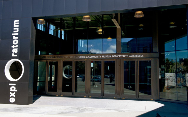 Main Entrance to the Exploratorium at Pier 15. Photo by Amy Snyder.